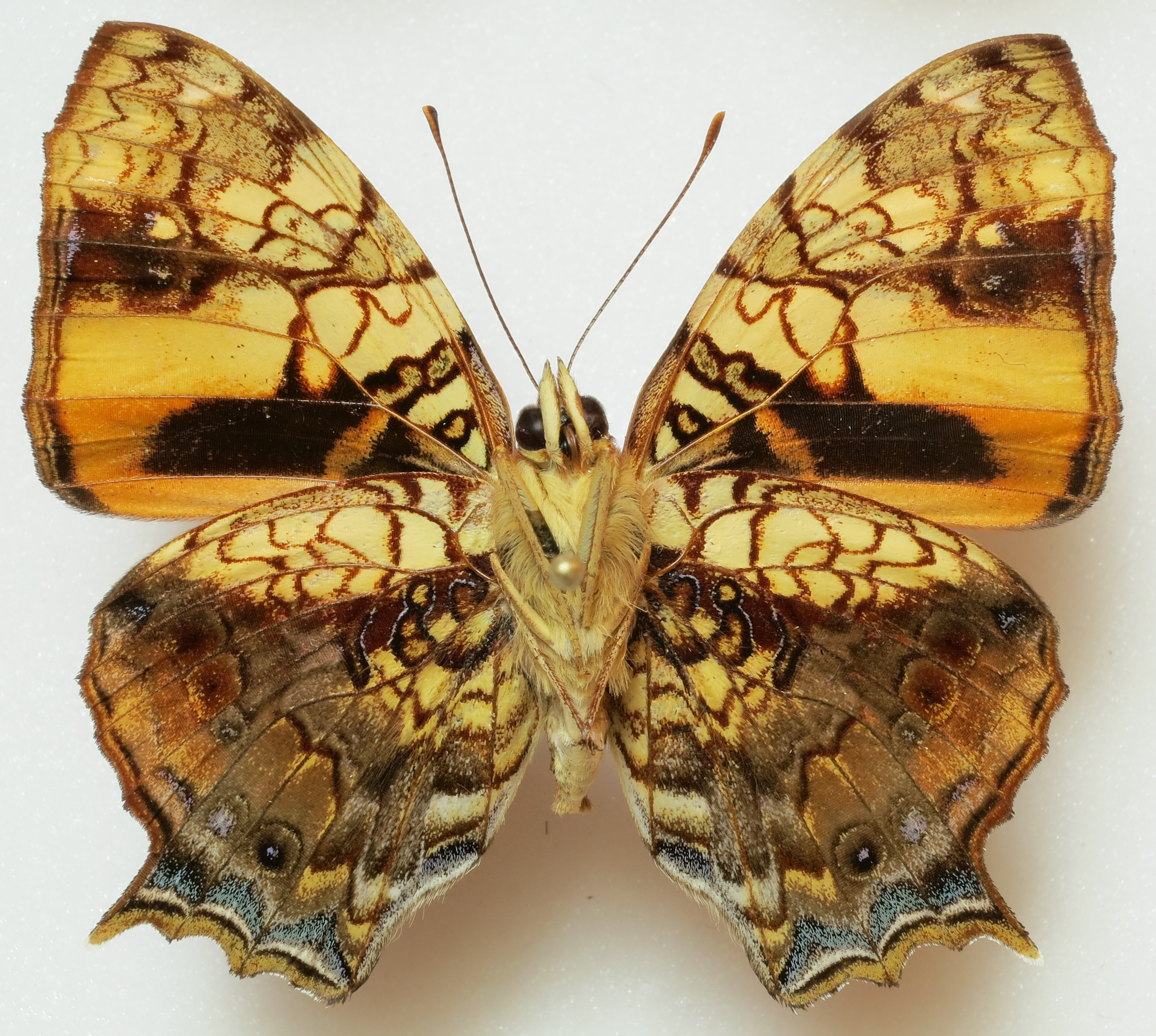 Hypanartia lethe from Tingo Maria, Huánuco, Peru